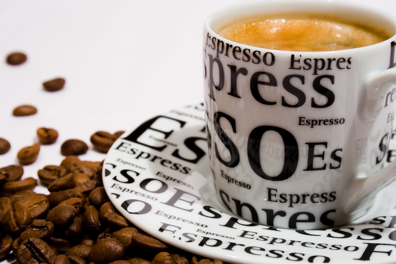 A cup of Espresso and coffee beans.